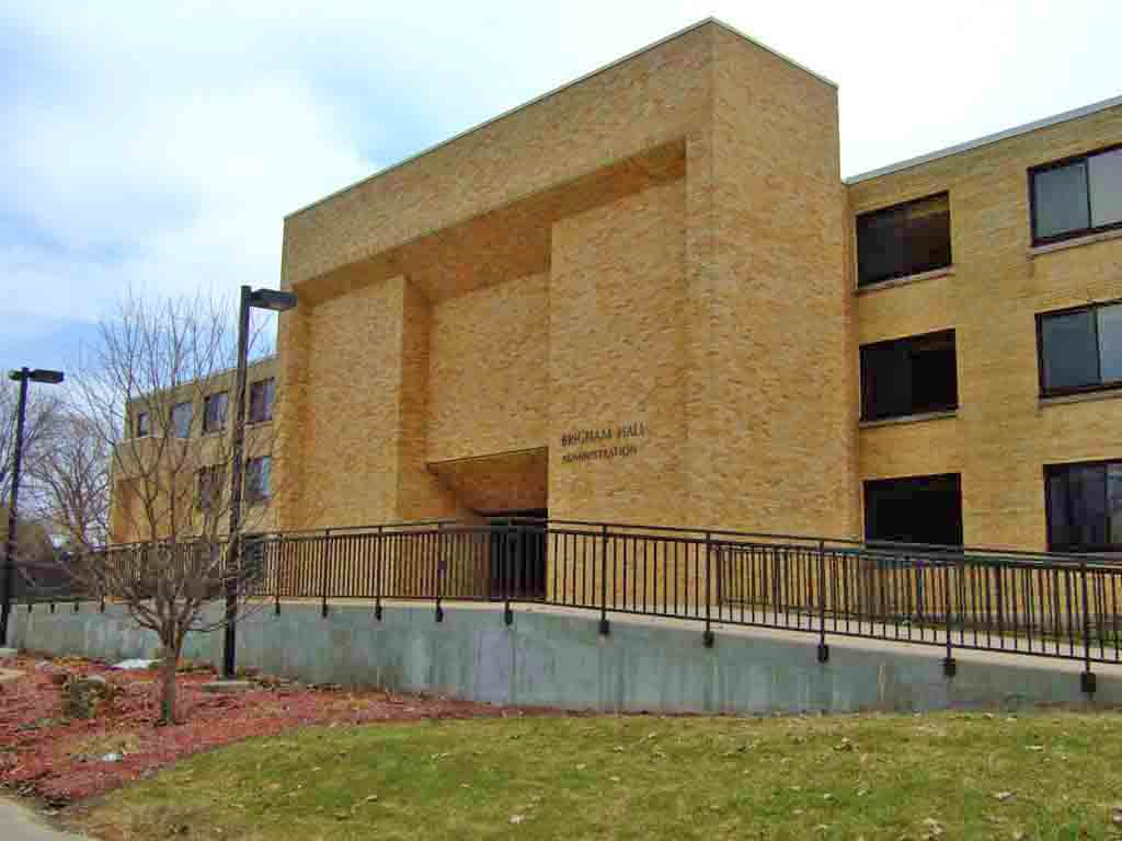 Brigham Hall (Regisgtrar, tutoring services, etc.)